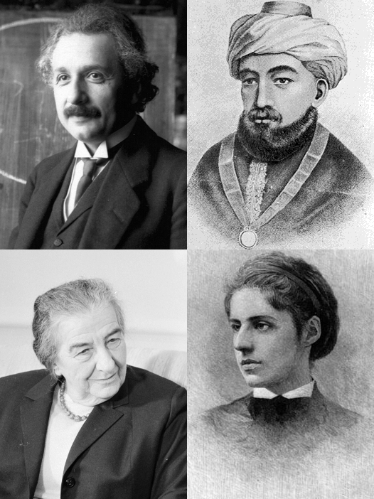 Famous Jews portrait, meant to illustrate Jew Left to right: Albert Einstein (from Image:Einstein1921 by F Schmutzer 2.jpg) Maimonides (from Image:Maimonides-2.jpg) Golda Meir (from Image:Golda Meir 03265u.jpg) Emma Lazarus (from Image:Emma Lazarus.jpg) (text from File:Jews.jpg)